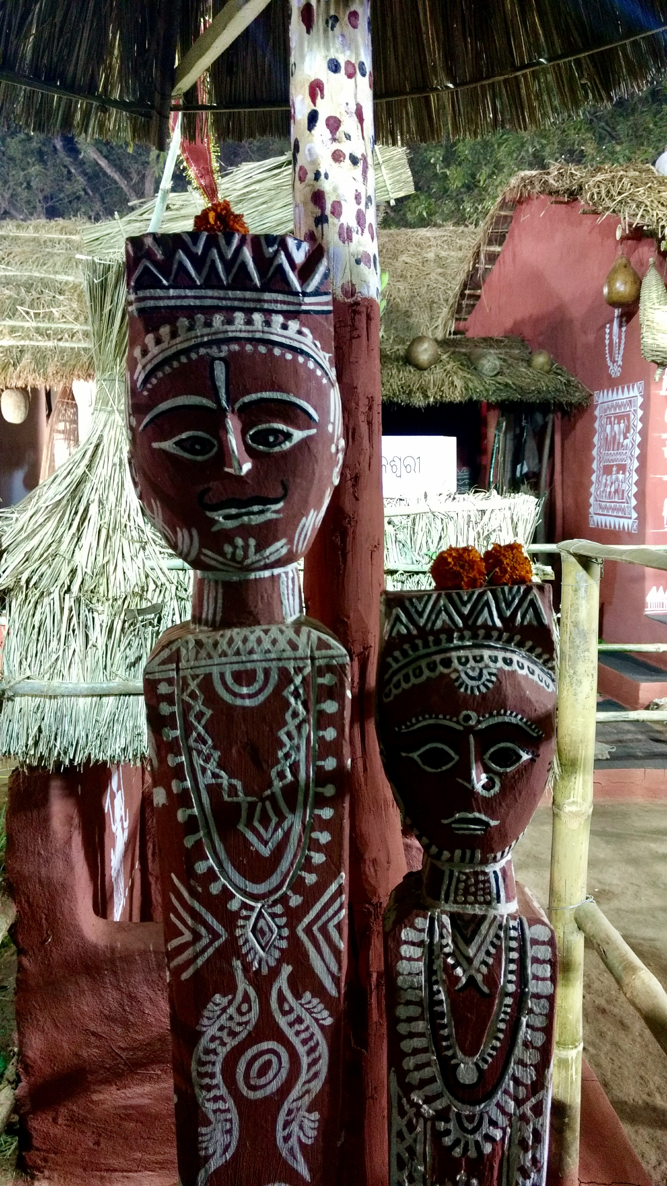 Roadside gods of the Hill Kharia tribe from Odisha. Image from the Adivasi Mela at Bhubaneswar. ଓଡ଼ିଆ: ଓଡ଼ିଶାର ହିଲ ଖଡ଼ିଆ ଆଦିବାସୀଙ୍କର ବାଟ ଦେବତା । ଭୁବନେଶ୍ୱରର ଆଦିବାସୀ ମେଳାରେ ଏହି ଫଟୋ ଉଠାଯାଇଥିଲା ।